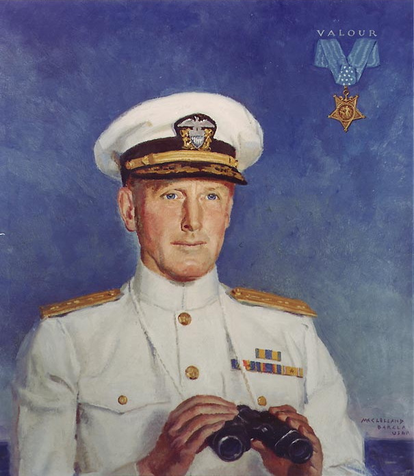 Photo #: KN-10864 (Color) Rear Admiral Norman Scott, USN Oil on canvas, 28" x 26", by McClelland Barclay, USNR (1891-1943). Painting signed and dated by the artist, 1942. It includes a depiction of the Medal of Honor, which was posthumously awarded to Rear Admiral Scott for "extraordinary heroism and conspicuous intrepidity" during the Naval Battle of Guadalcanal, 13 November 1942. Painting in the U.S. Naval Academy Museum Collection. Gift of Mrs. Norman Scott, 1949. Official U.S. Navy Photograph.